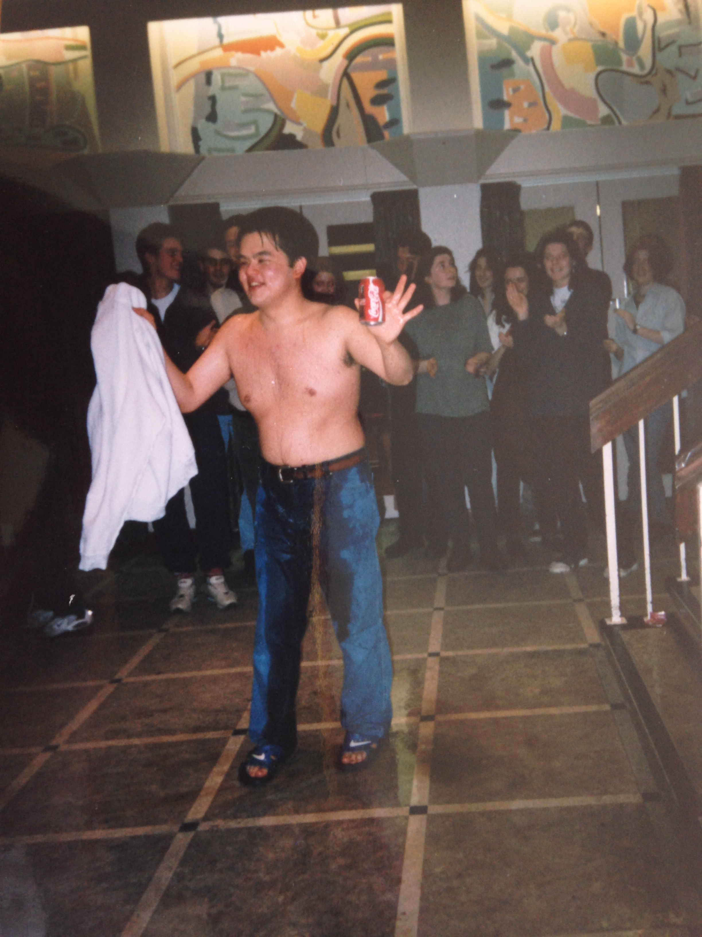 Kazuhisa Faukasta. Post the first ever performance of the now Legenday "Kazu". Note the use of Full Fat Coke.